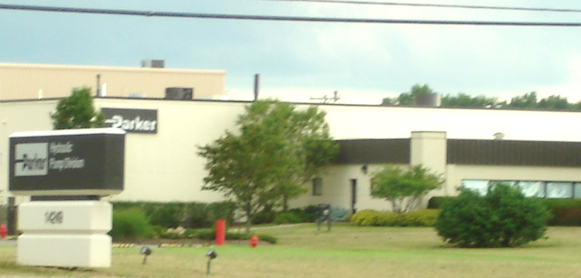 Parker-Hannifin, Marysville, Ohio, United States